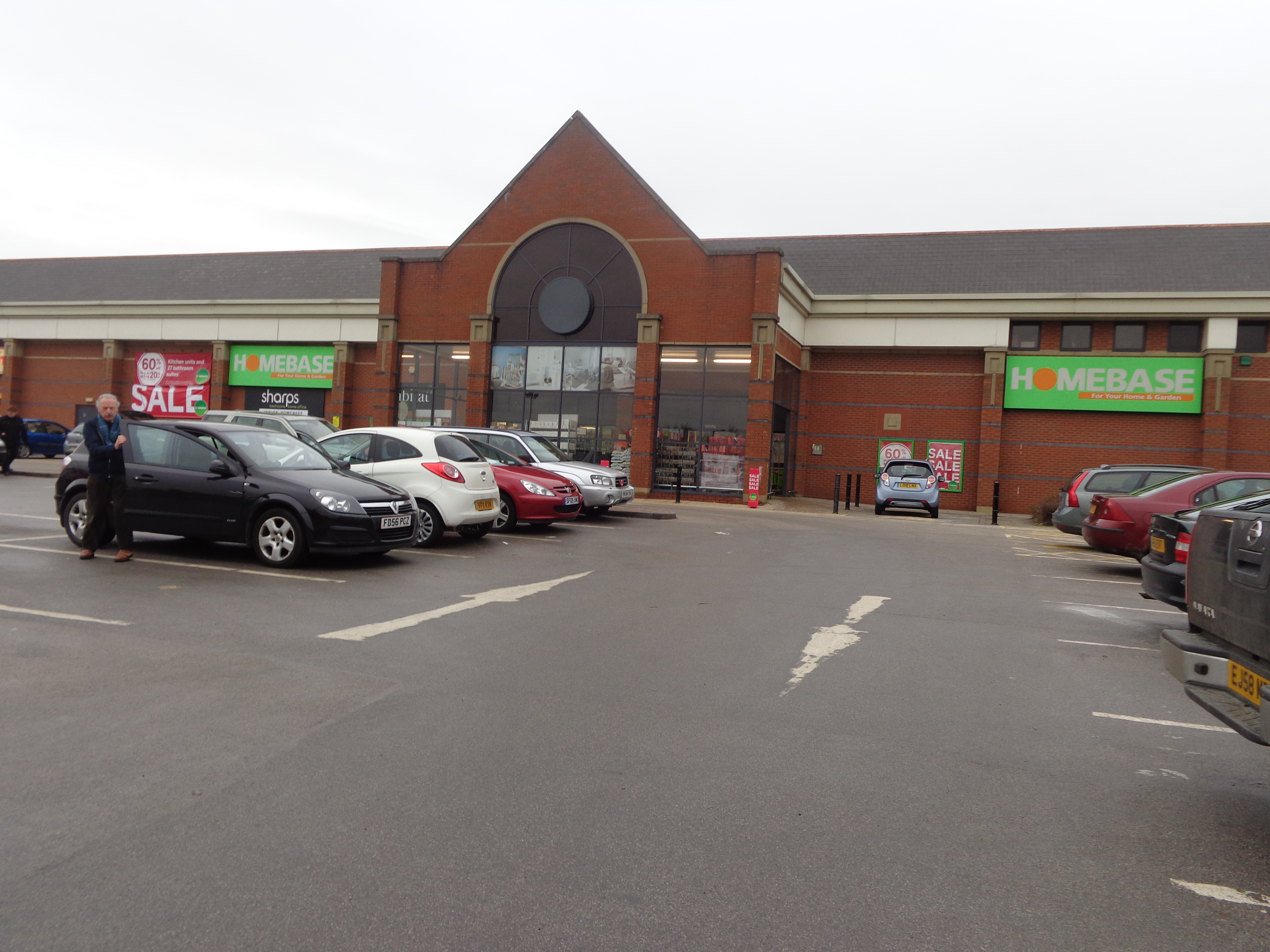 Homebase, Plompton Park, Harrogate, North Yorkshire. Taken on the afternoon of Saturday the 24th of January 2014.